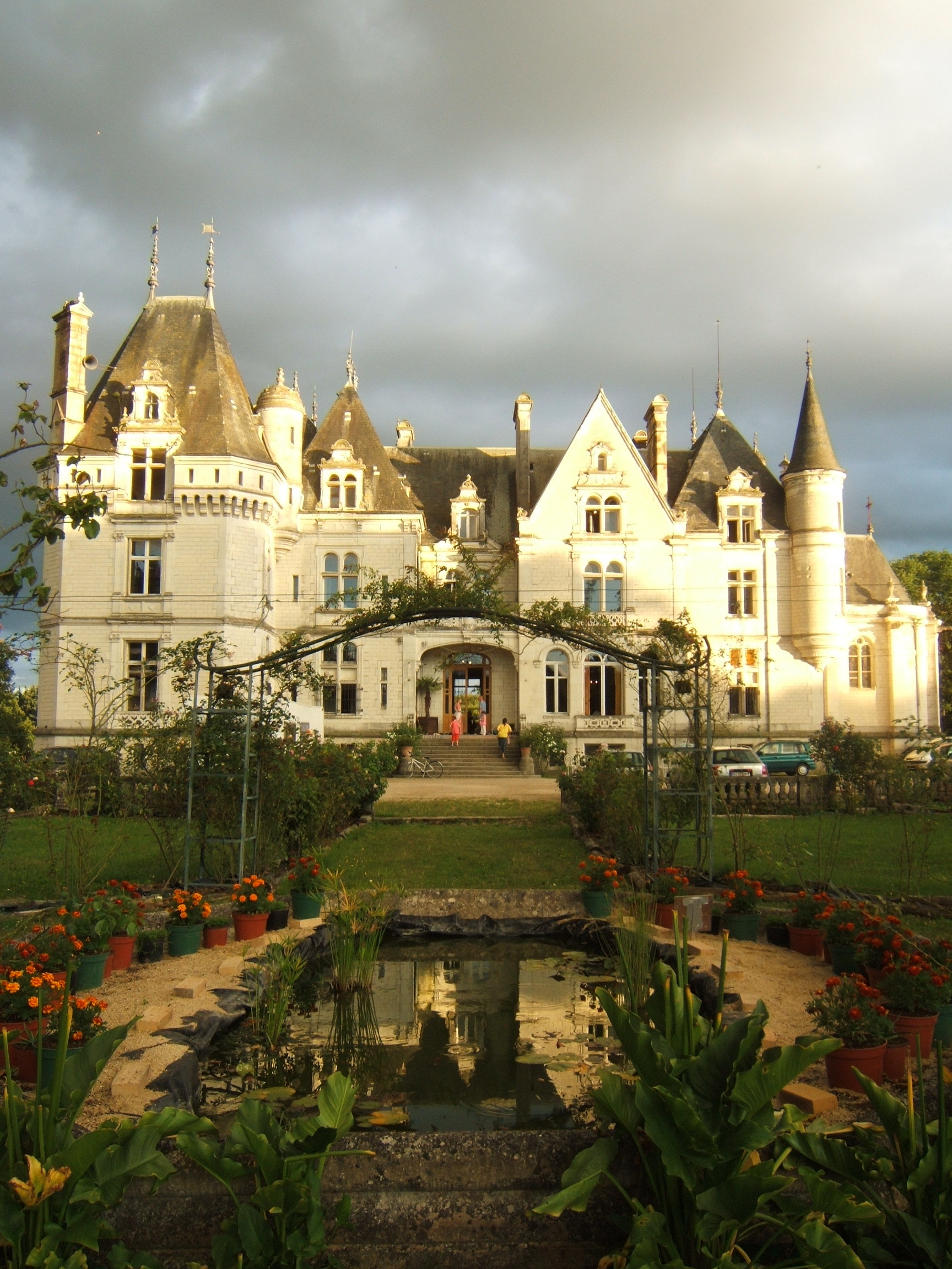 New Mayapur Hare Krishna community in the department of Indre in central France. The place is also known as Château d'Oublaisse.